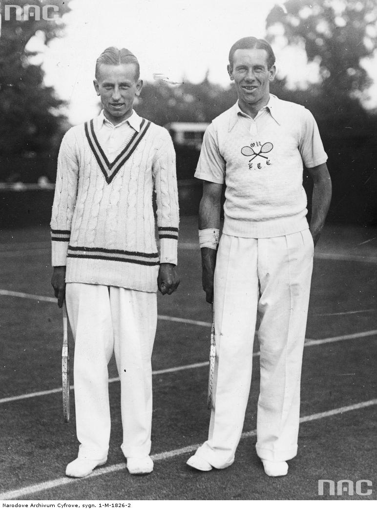 Ignacy Tłoczyński (left), Polish tennis player at the Grand Slam tournament